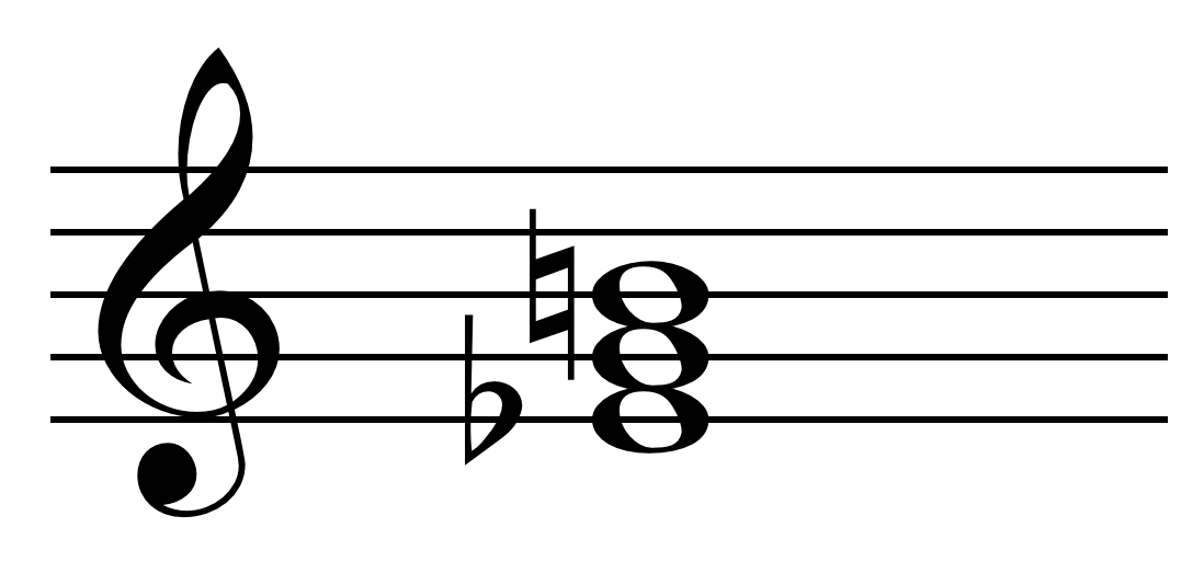 III+ chord.